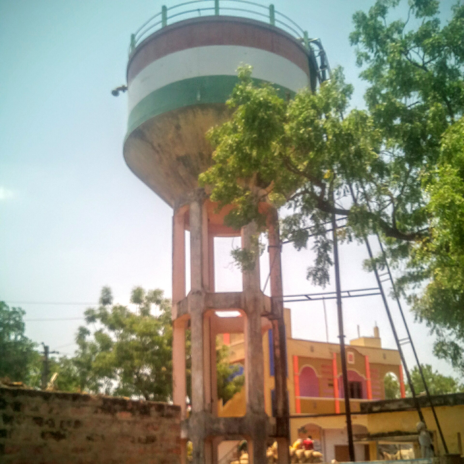 Water tank at Valiveru, Guntur district